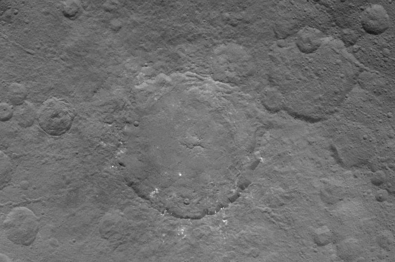 Dantu crater on Ceres